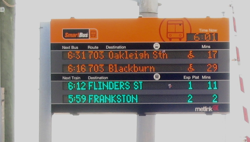 SmartBus Passenger Information Display (PID) at Bentleigh, Melbourne, Australia